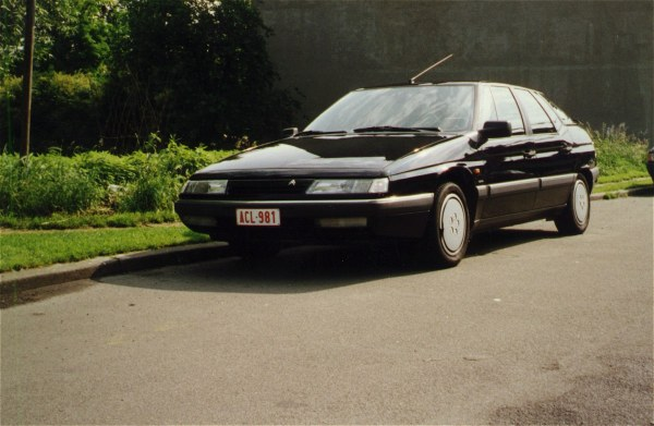 citroën xm 2.0 injection 1991